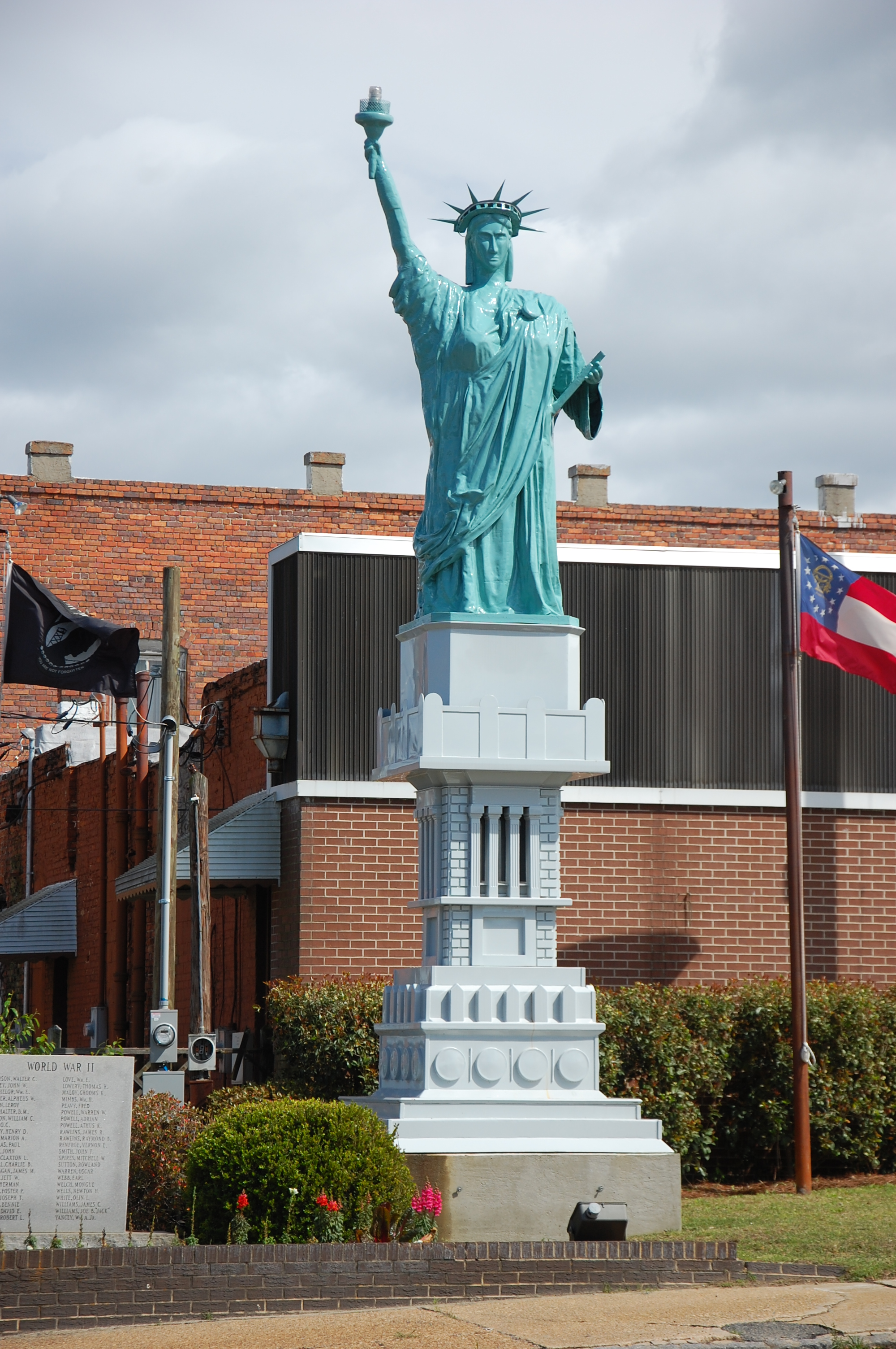 Statue in McRae, GA, USA - 1/12 size replica of the Statue of Liberty